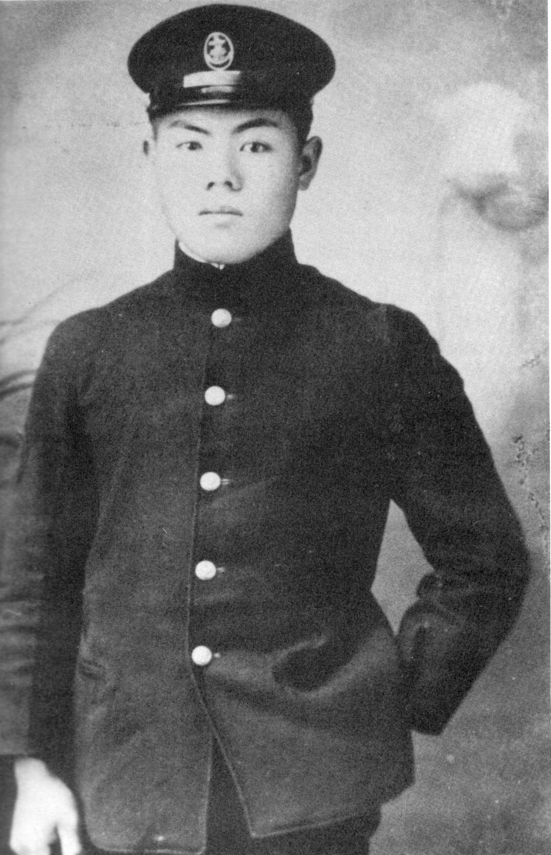 Tadayoshi Koga, pilot of the Akutan Zero. Picture obtained from Koga's family and first published in the 1990s.